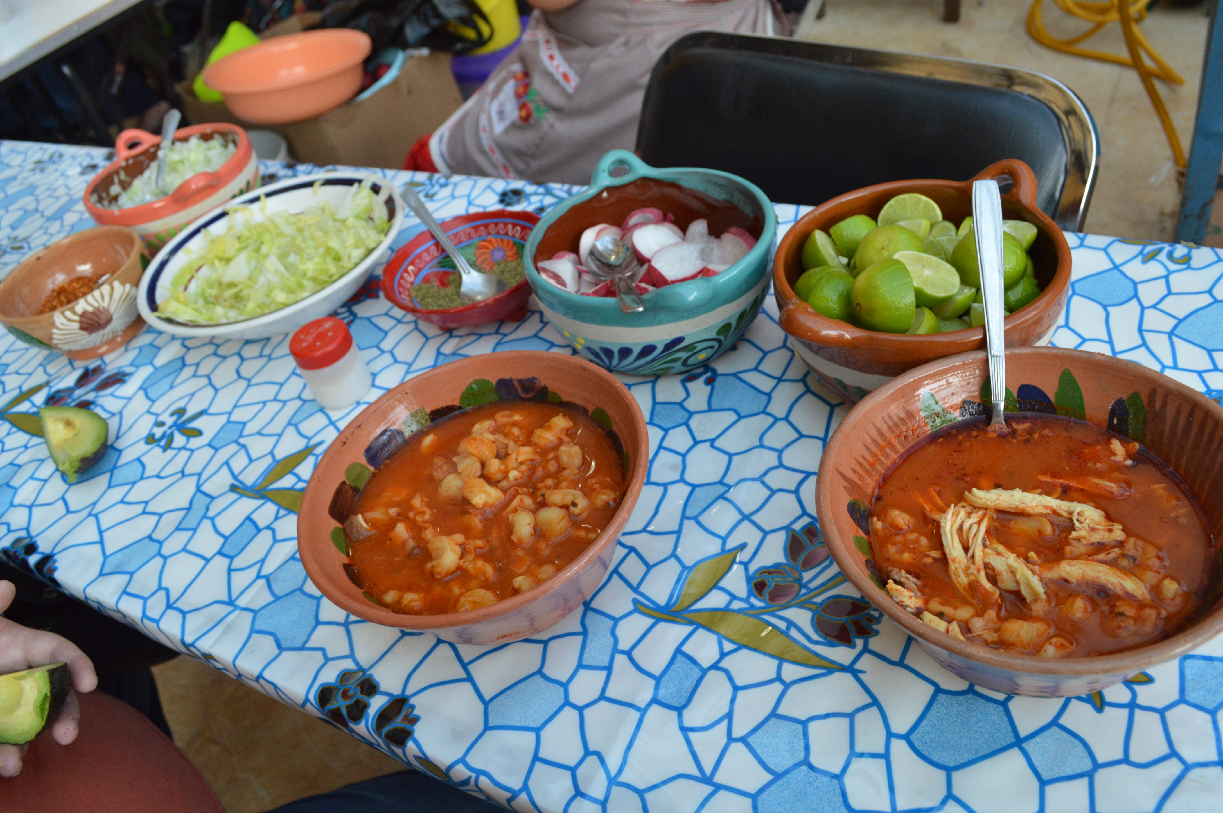 Red pozole served at the 2015 Encuentro Chilenero in Iztapalapa, Mexico City